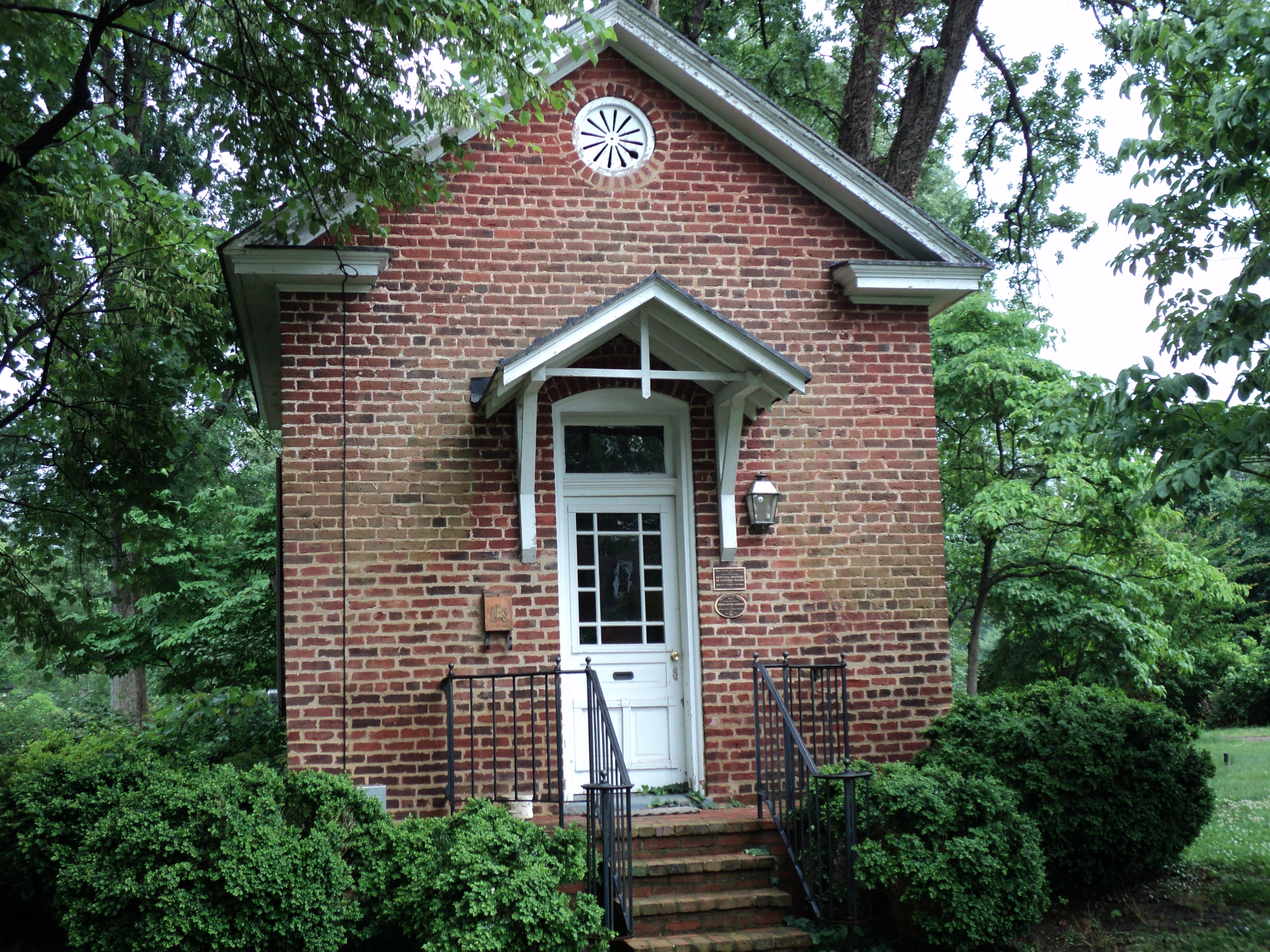 View of the Little Post Office, 207 Starling Avenue, Martinsville, Virginia. Added to the National Register of Historic Places on February 21, 1997, the brick structure served as Martinsville's first post office.